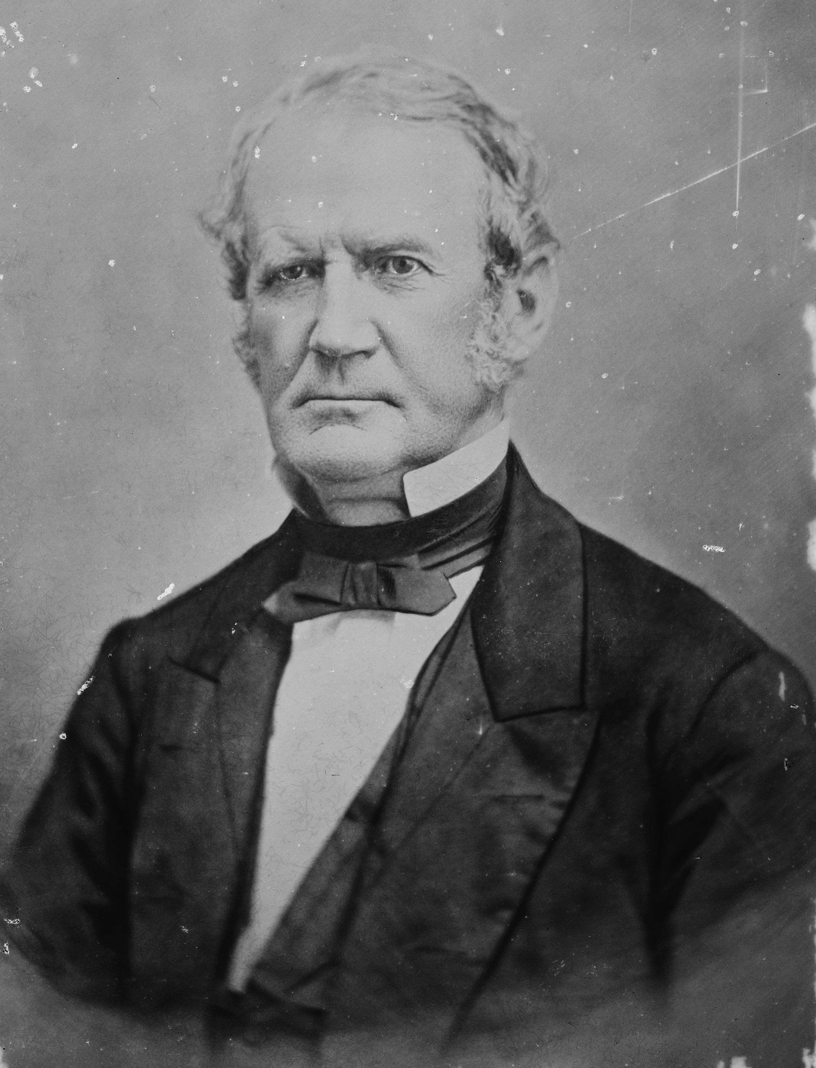 William Alexander Graham. Library of Congress description: "Gov. Wm. A Graham, N.C. Gov of N.C. 1845-1849, Sec. of the Navy in the cabinet of Pres. Fillmore, July 20, 1850-March 7, 1853, Member of State Senate, 1854, 1862, 1865, Senator in 2nd Confederate Congress"